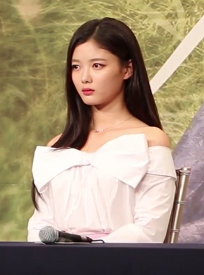 Kim Yoo-jung at Love in the Moonlight Press Conference on August 18, 2016.